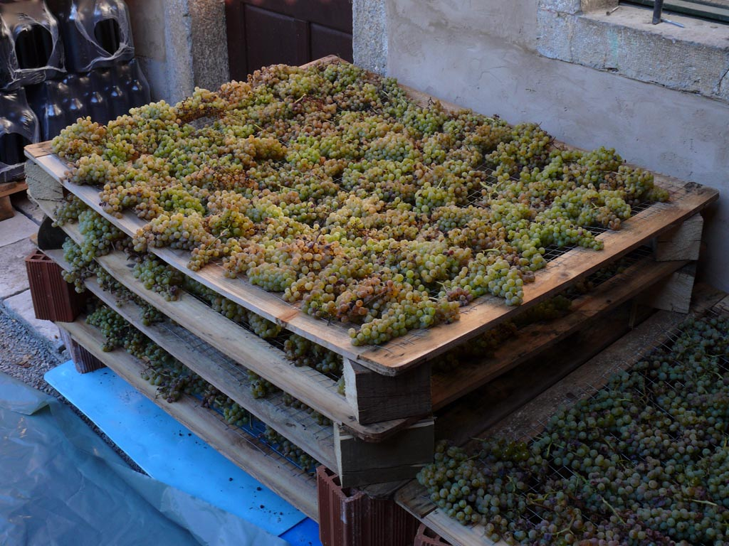 Grapes, left to dry for a passito wine, Marco Fon Vinogradi (SLO).